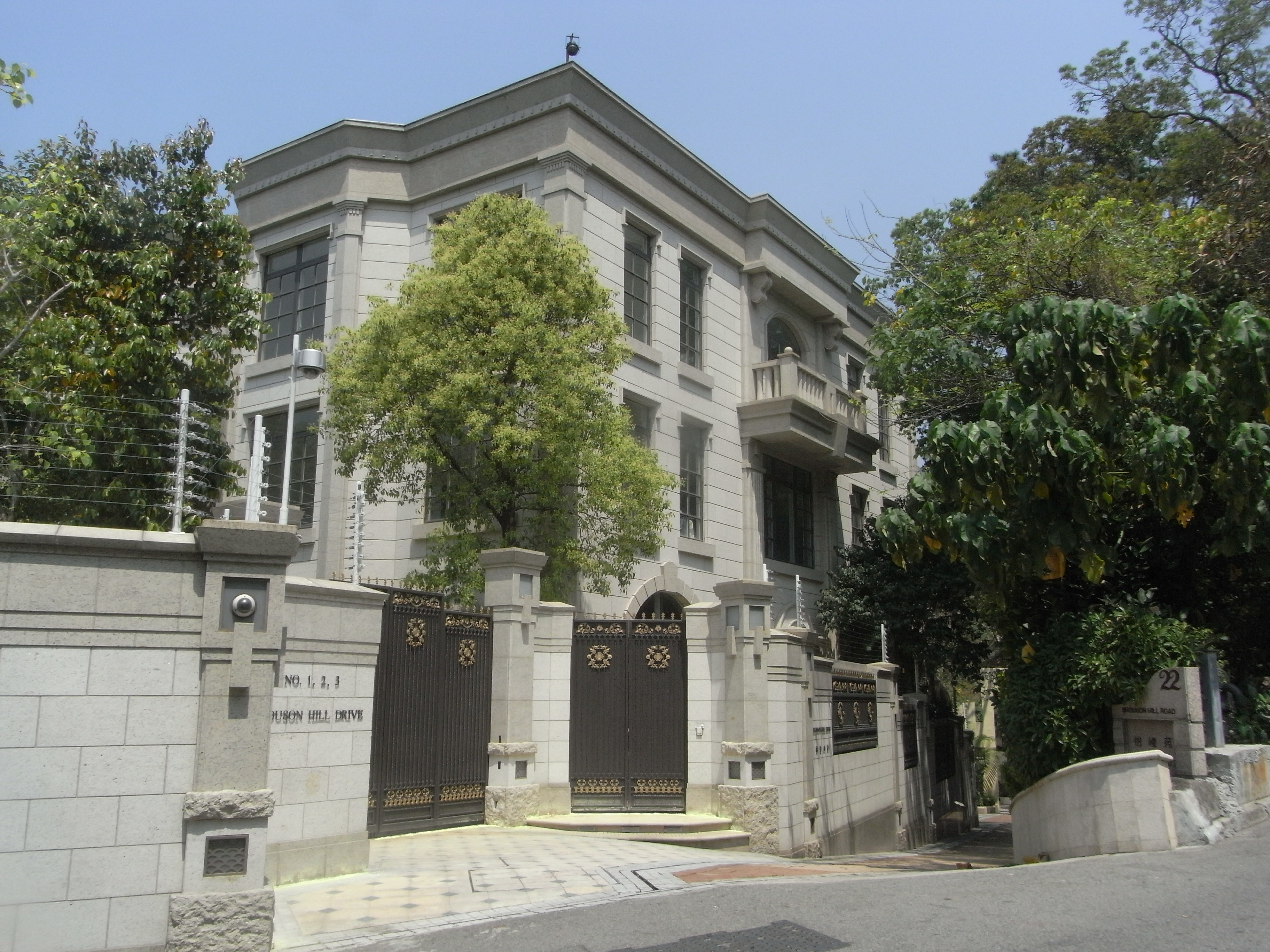 香港島南區壽山村道